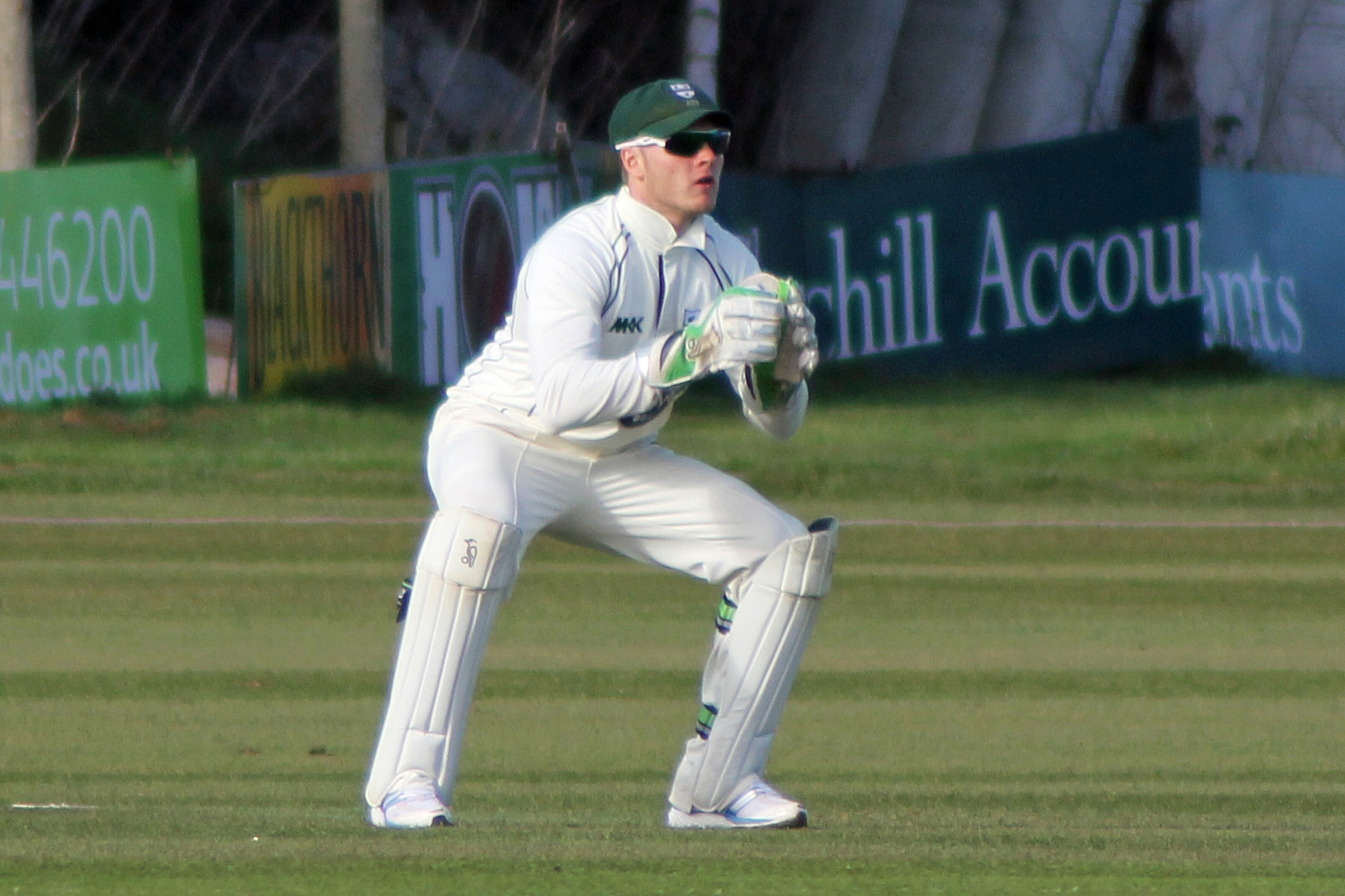 Ben Cox keeping wicket for Worcestershire seconds against Somerset at Taunton Vale cricket ground.